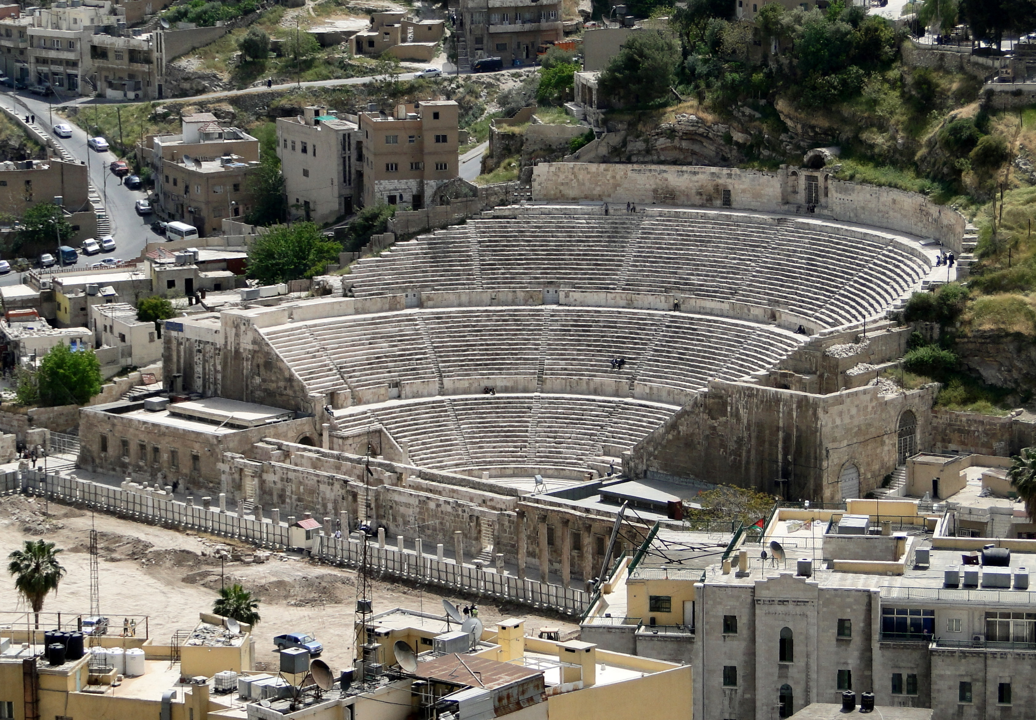 Roman theater of Amman seen from Amman Citadel, Jordan